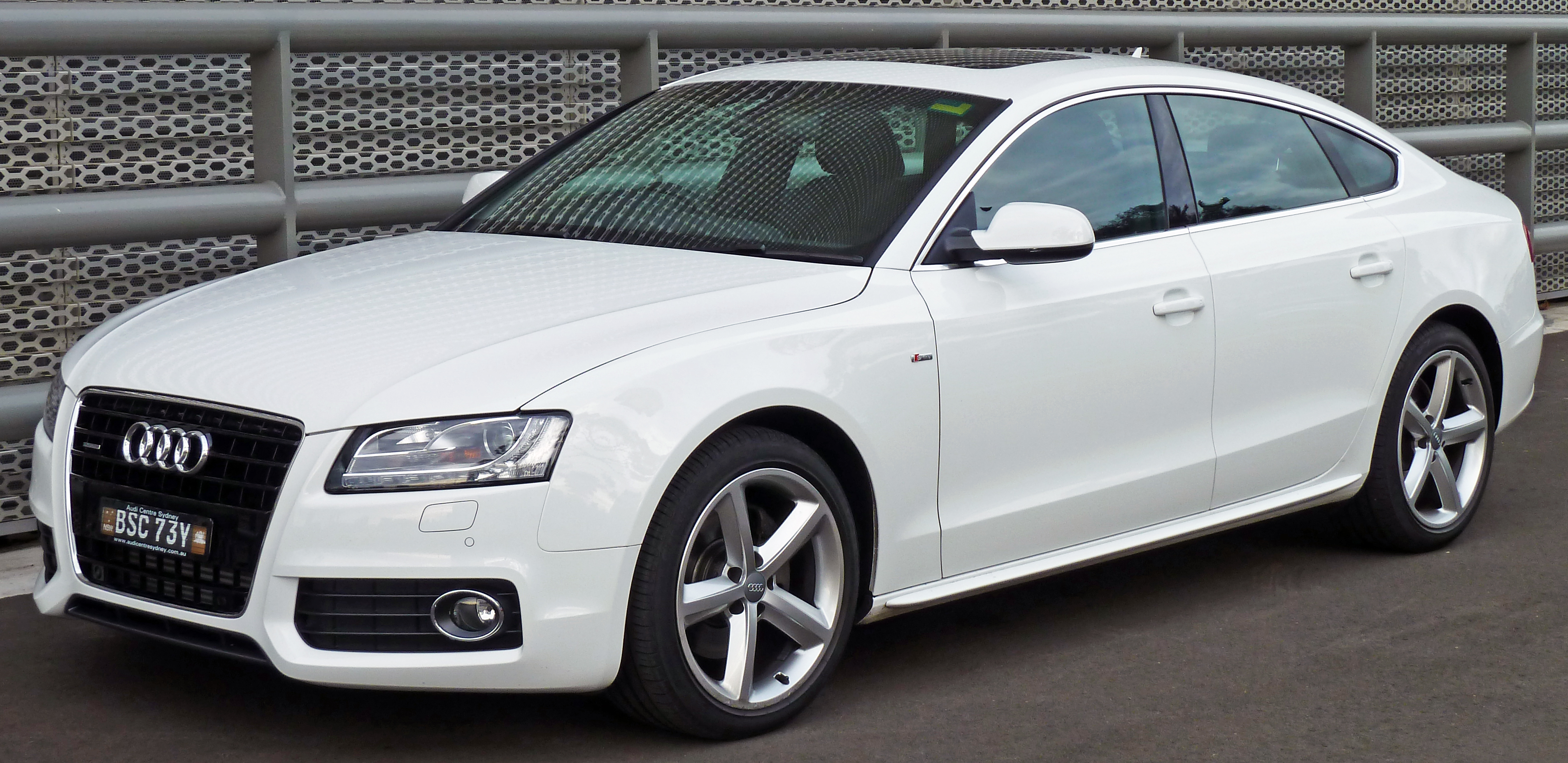 2010 Audi A5 (8T) 3.0 TDI quattro Sportback. Photographed at the Audi Centre Sydney, Zetland, New South Wales, Australia.